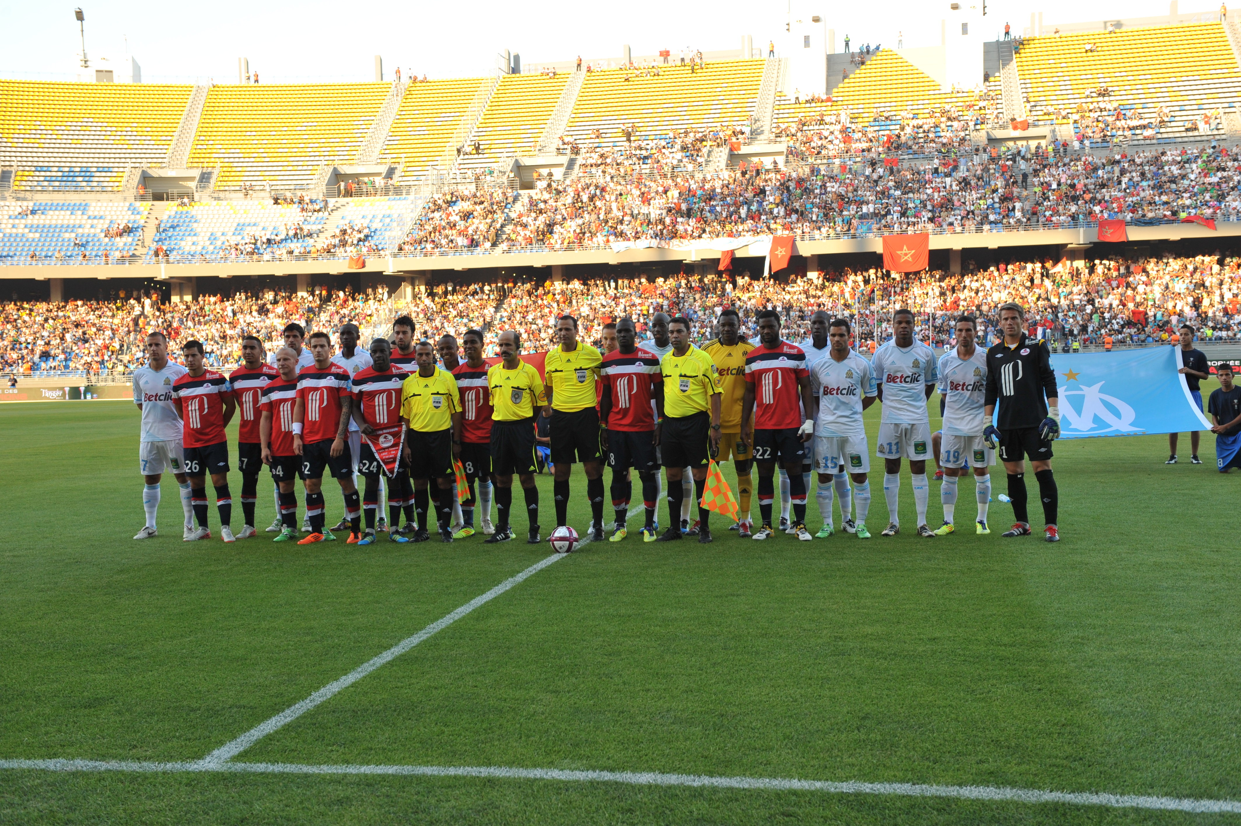 OM - LOSC